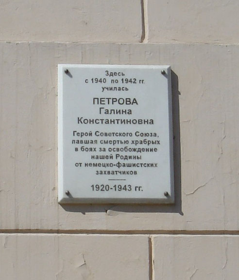 Memorial plaque to Galina Petrova, Heroine of the Soviet Union